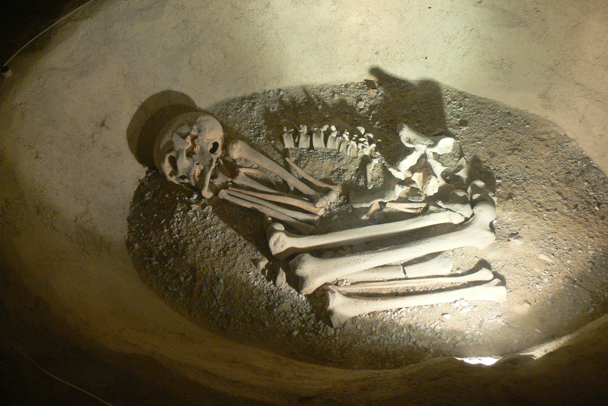 Celtic village in Mitterkirchen ( Upper Austria ). Reconstruction of a Celtic chieftain´s grave - original burial.